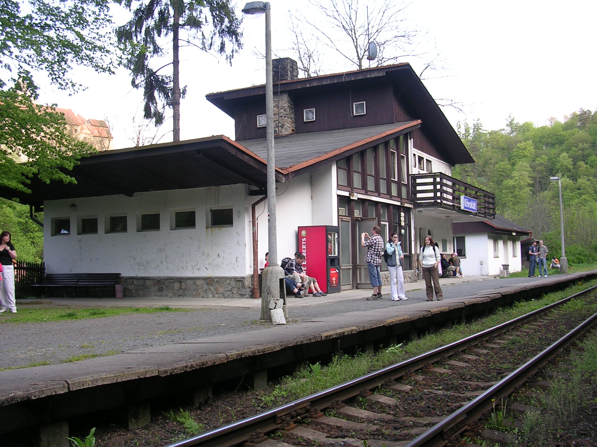 Křivoklát, the Czech Republic.